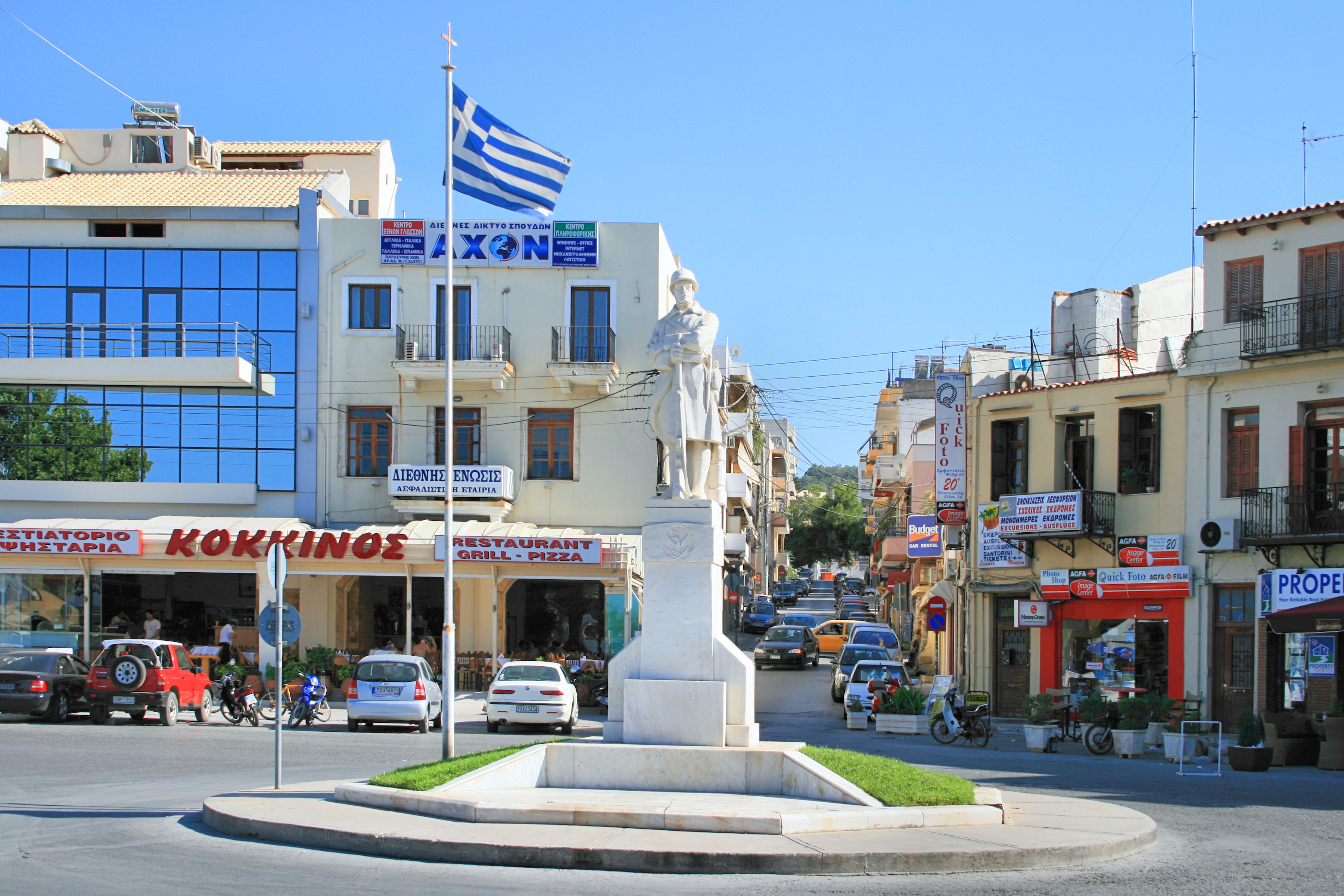 Rethymno on the island of Crete - Monument to the Unknown Soldier (Agnostos Stratiotis)